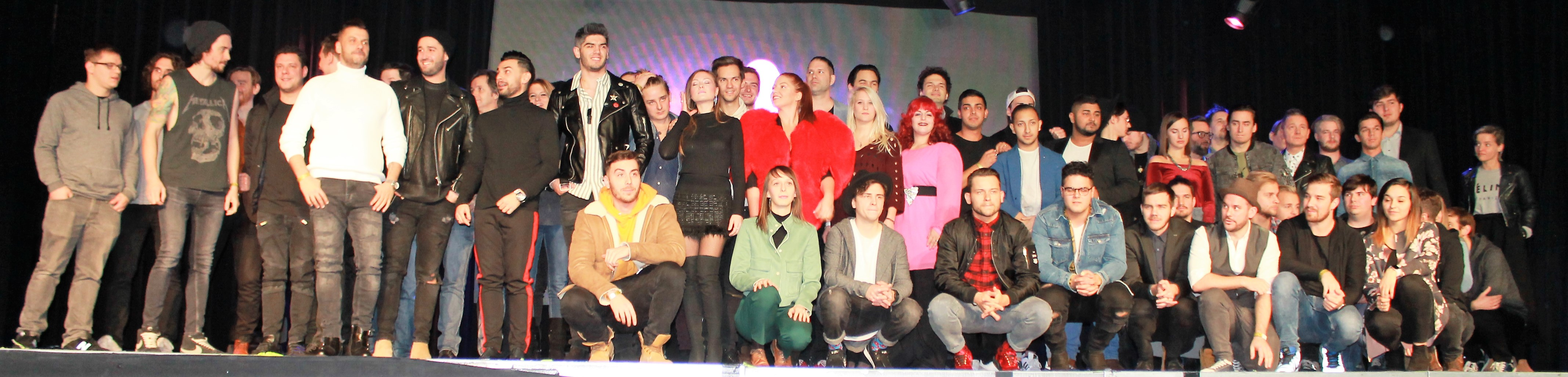 A Dal 2018 participants: the best 30